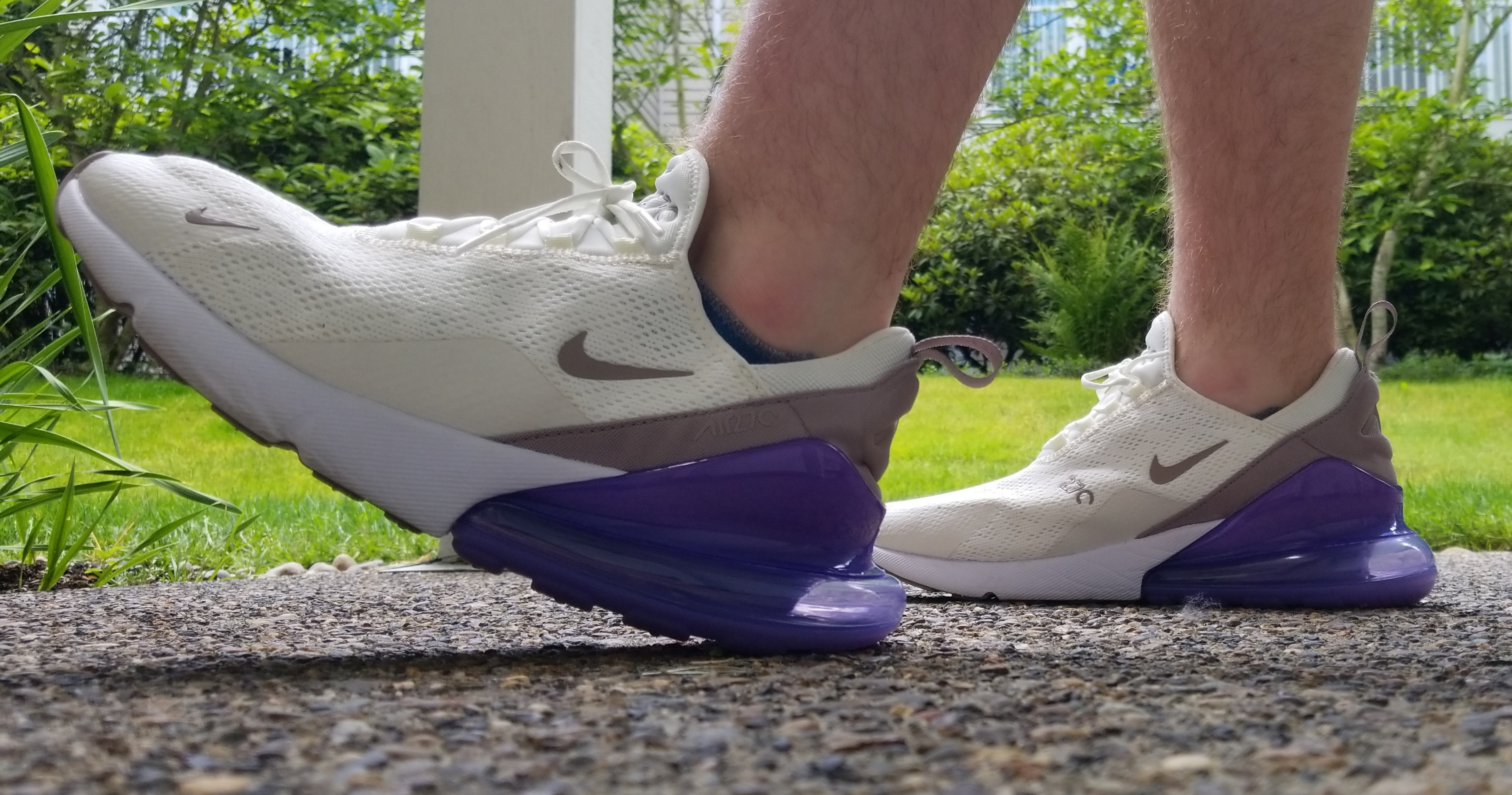 A pair of Nike Air Max 270 shoes in the "Sail Lilac" colorway are shown being worn.